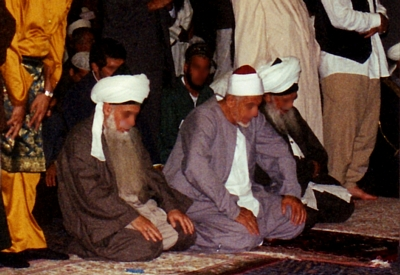 Shaykh Hisham Kabbani (left) and Shaykh Nazim al-Haqqani (right) are pictured seated in prayer during the International Islamic Unity Conference at the Westin Bonaventure Hotel in Los Angeles.